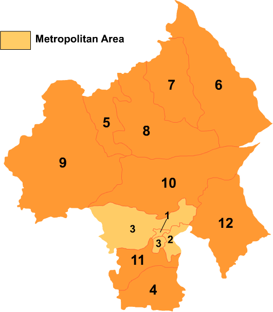 Map of Chifeng in Inner Mongolia1 Hongshan District 2 Yuanbaoshan District 3 Songshan District 4 Ningcheng County5 Linxi County 6 Ar Khorchin Banner 7 Baarin Left Banner 8 Baarin Right Banner9 Hexigten Banner 10 Ongniud Banner 11 Kharchin Banner 12 Aohan Banner